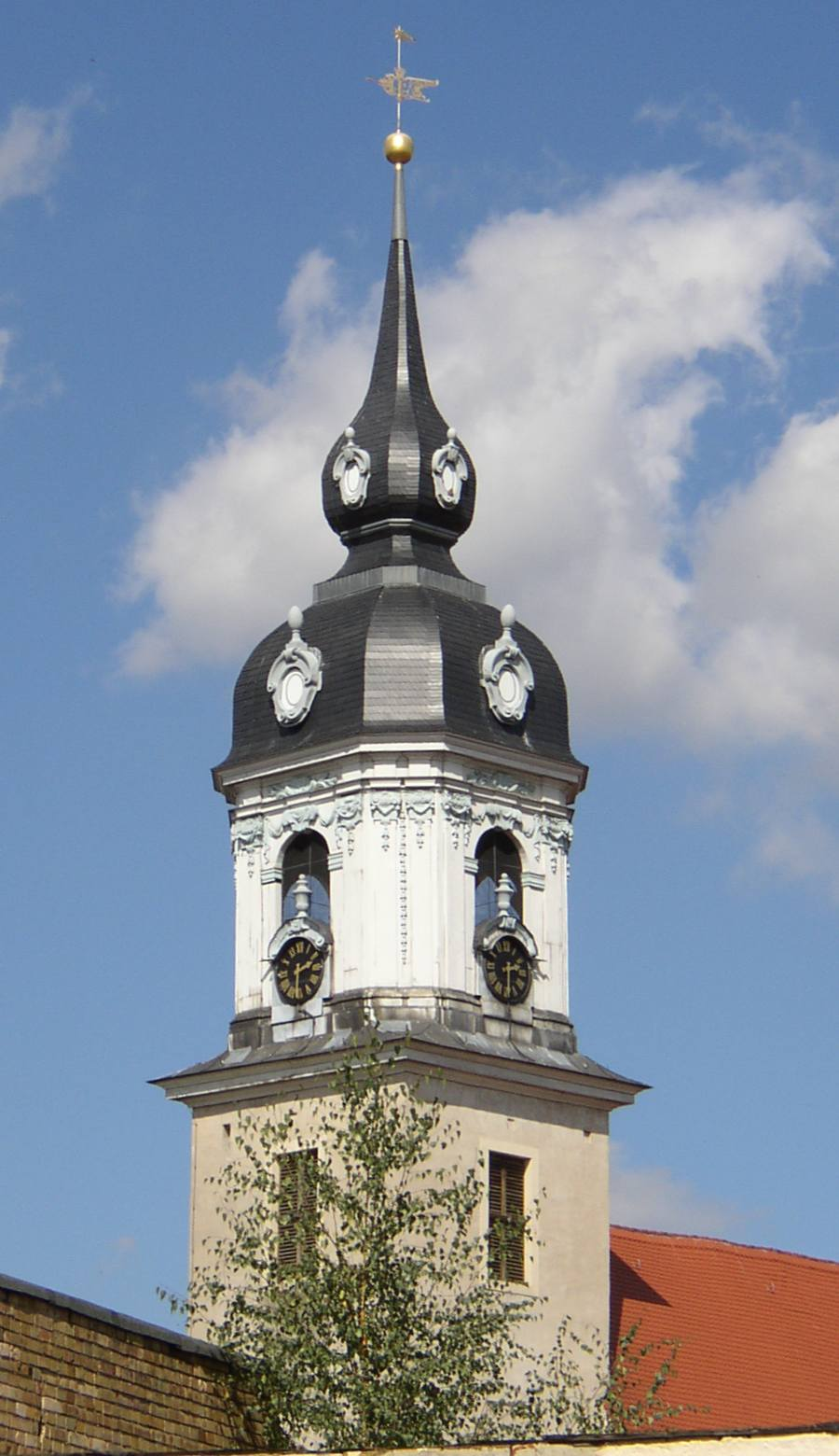 Steeple in Pretzsch in Saxony-Anhalt, Germany